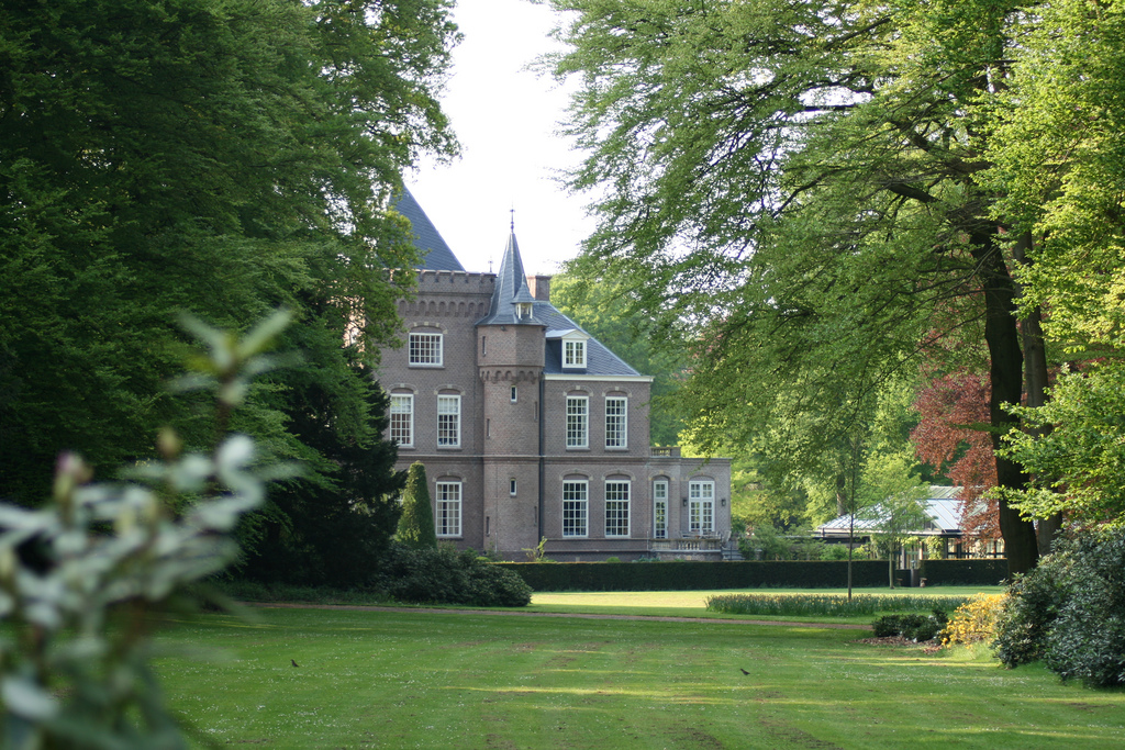 Estate Rhenen